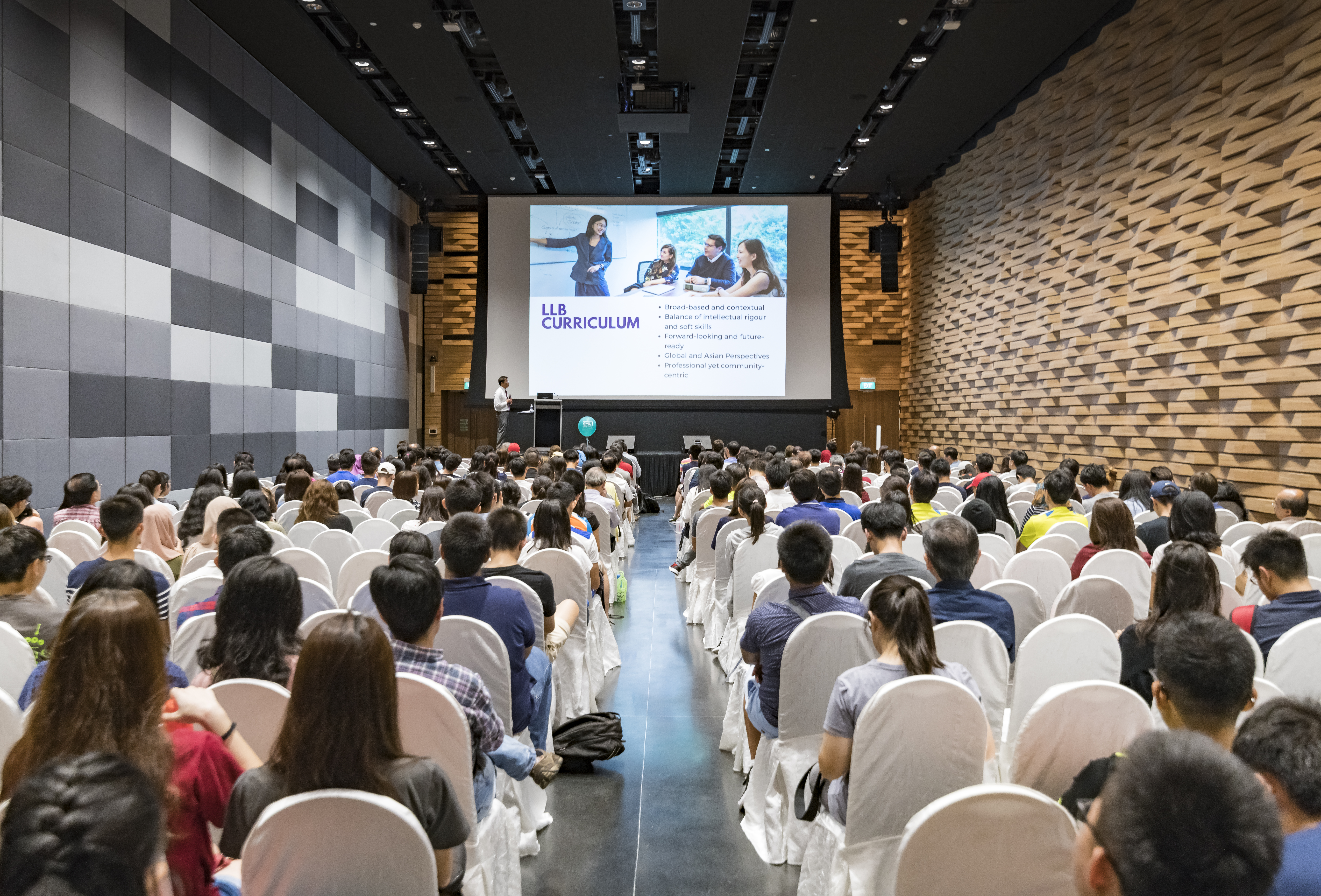 singapore management university school of law function hall basement